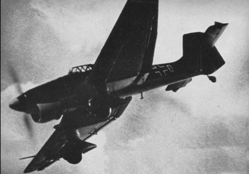 Photo of a German Junkers Ju 87B Stuka dive bomber, ca. 1940